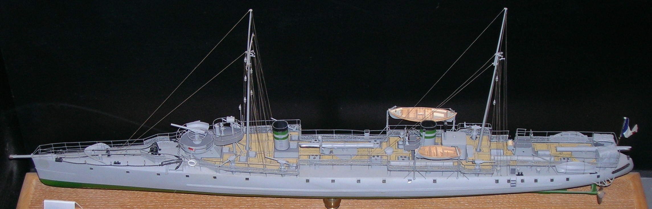 Model of a torpedo ship